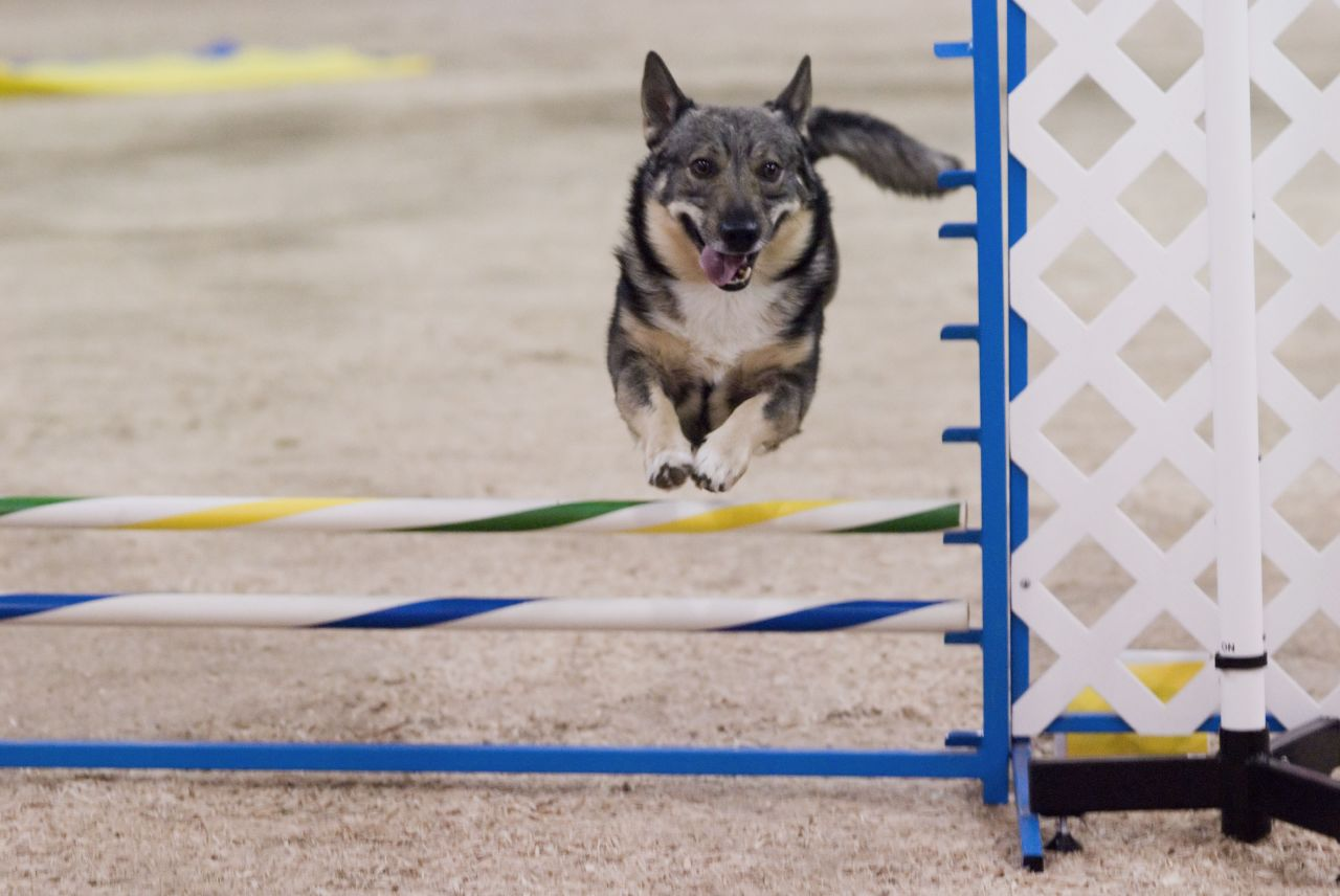 Swedish Vallhund